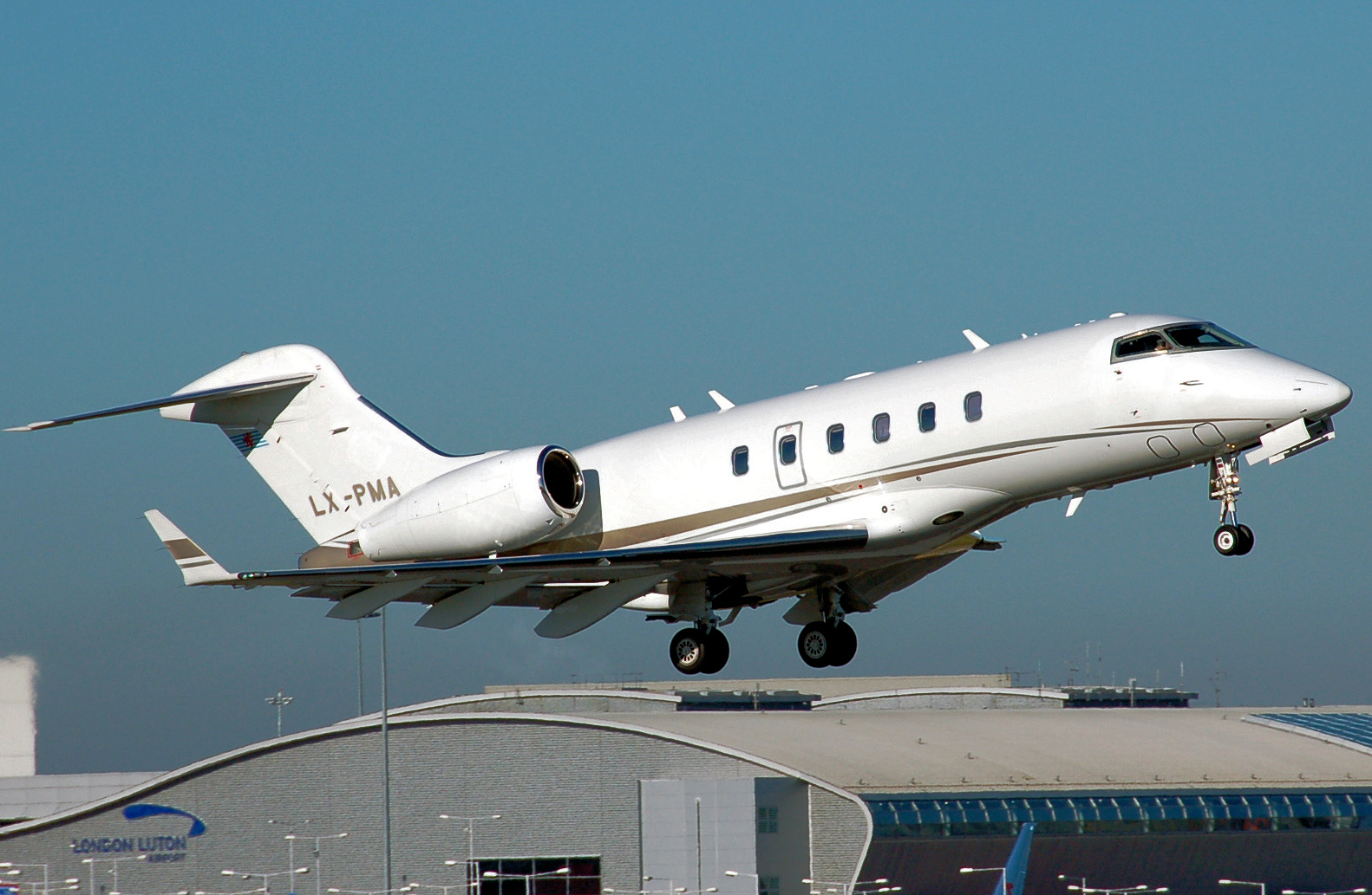 Bombardier Challenger 300 (with Luxembourg registration LX-PMA) takes off from London Luton Airport, England. Operator: Premiair. Photographed by Adrian Pingstone in February 2007 and released to the public domain.